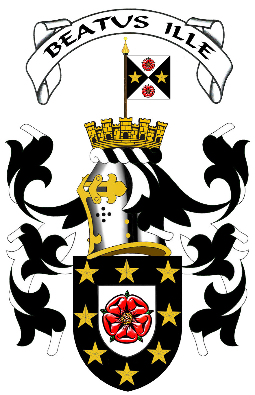 The arms of 30th Baron of Stobo